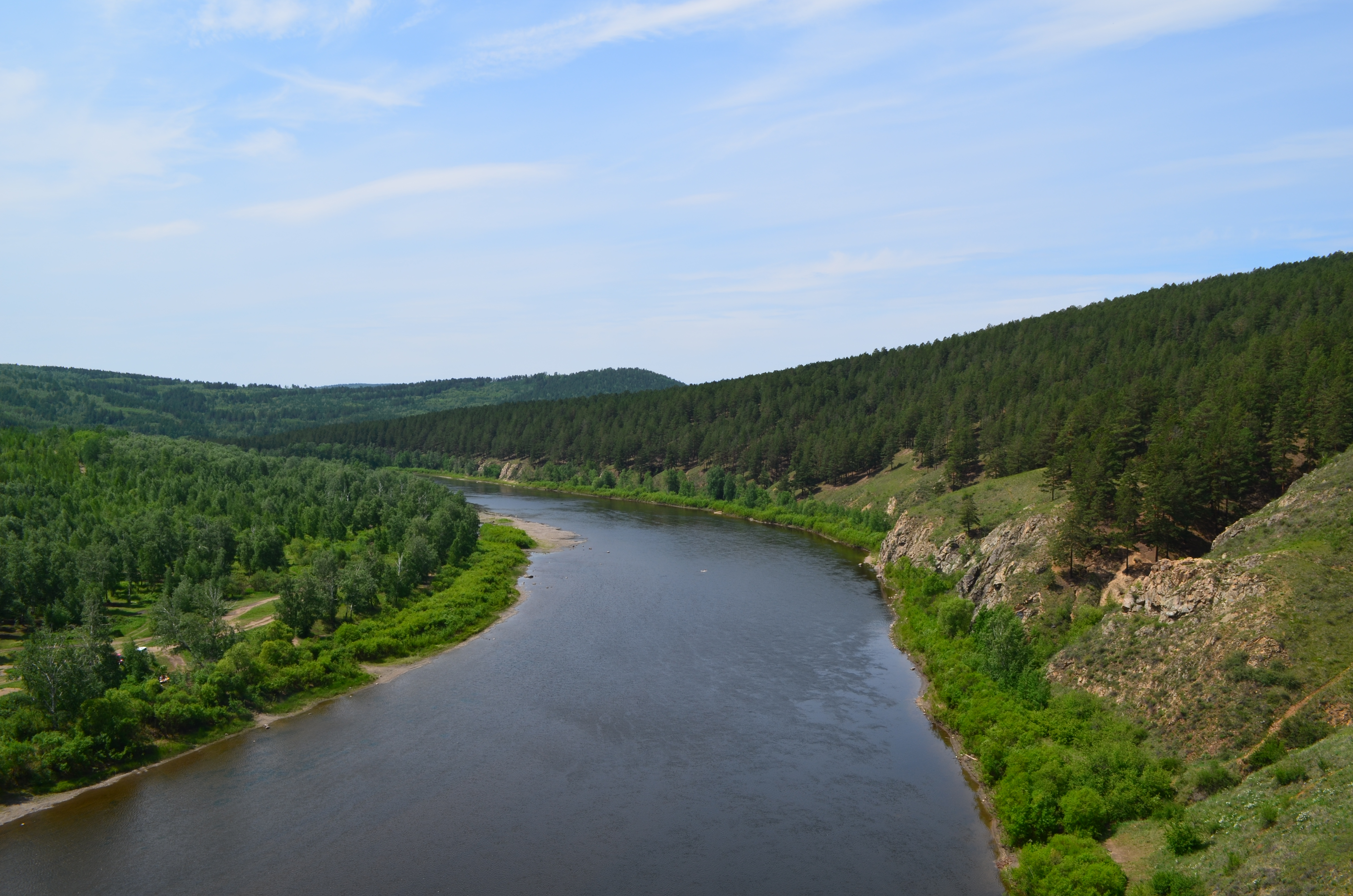 Ingoda River near Chita. A view from Sukhotino Rock